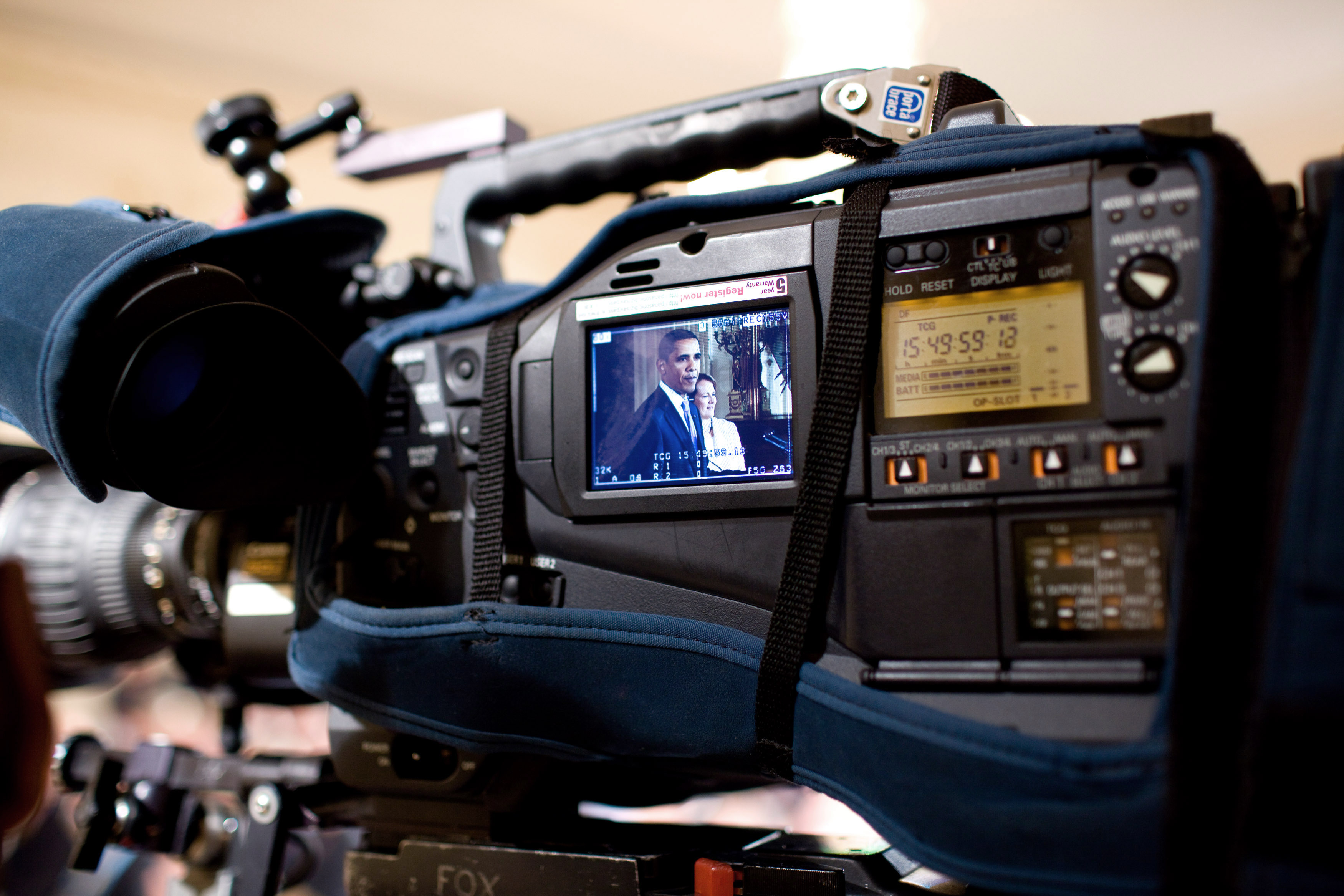 President Barack Obama and Small Business Administration Administrator Karen Mills are shown on a video camera screen during an event in the East Room of the White House May 19, 2009. Sterling photo booth (Official White House Photo by Lawrence Jackson)